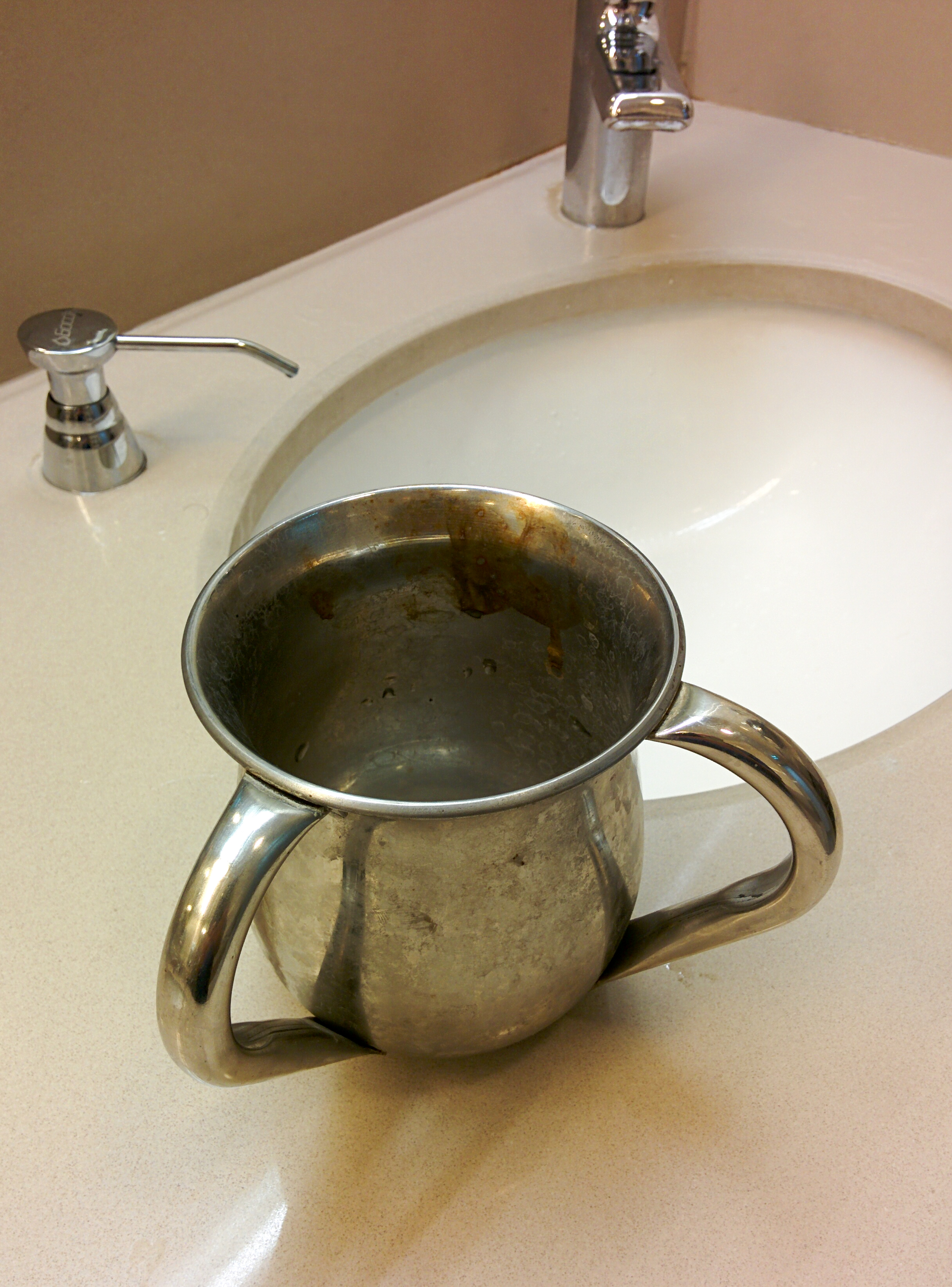 A two-handled Natla (נַטְלָה) cup used for ritual washing in Judaism, photographed in a Jerusalem public lavatory.